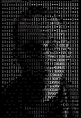 Adrian Lamo, faux retro